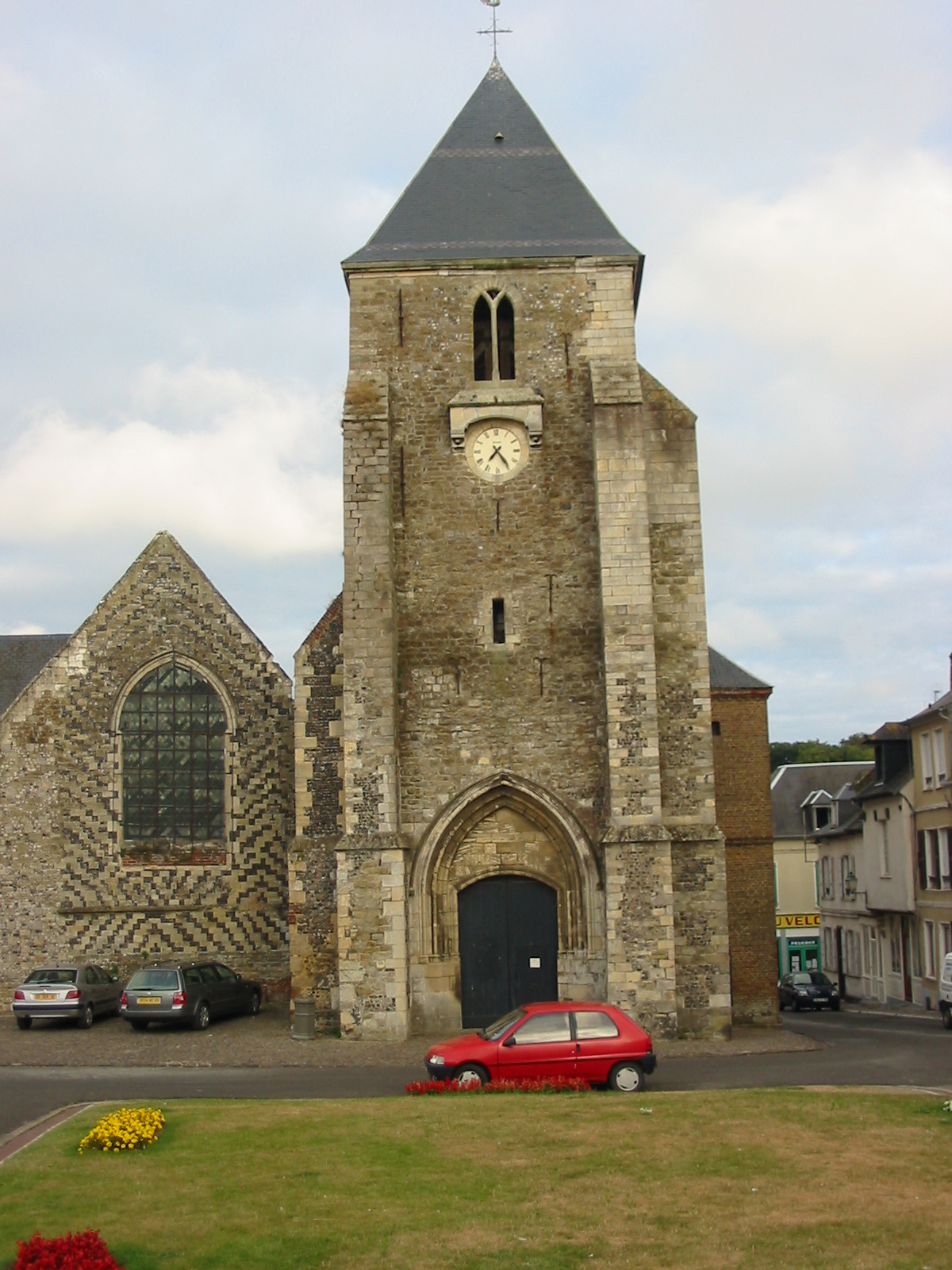 Church, Saint-Valery-sur-Somme